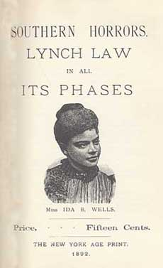 Ida B. Wells (author), Southern Horrors: Lynch Law in All Its Phases, book cover, 1892